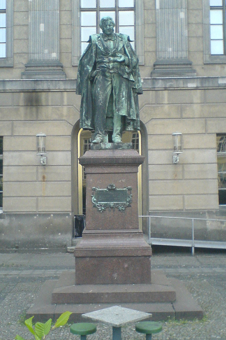 Monument to Eilhard Mitscherlich. The monument is near Humboldt university and it was created by Carl Ferdinand Hartzer in 1894.